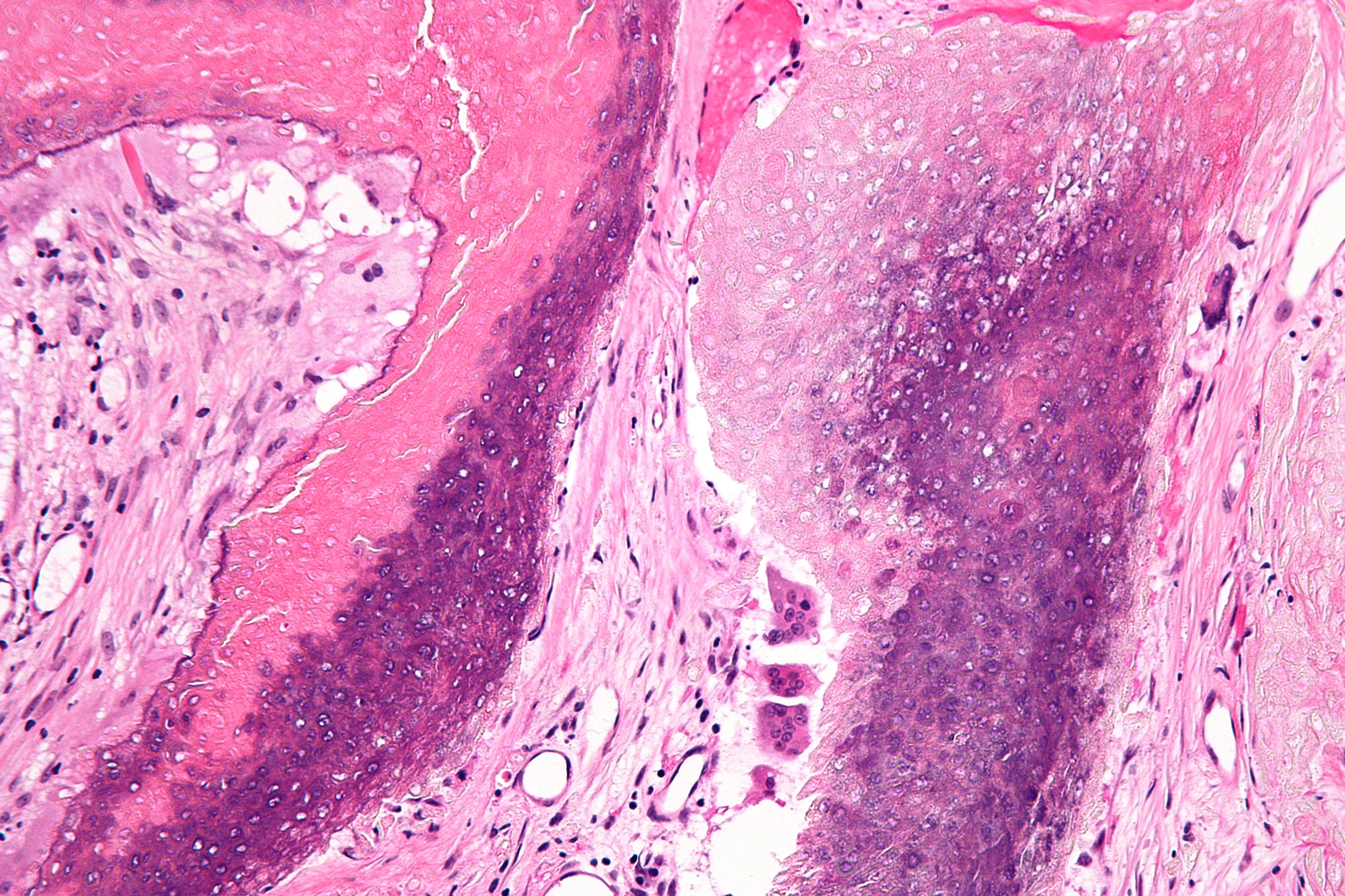 High magnification micrograph of a pilomatrixoma, also pilomatricoma. H&E stain. The images show the characteristic features: Multinucleated giant cells. Squamous epithelium. Anucleate squamous epithelium, known as ghost cells. Related images Intermed. mag. High mag.